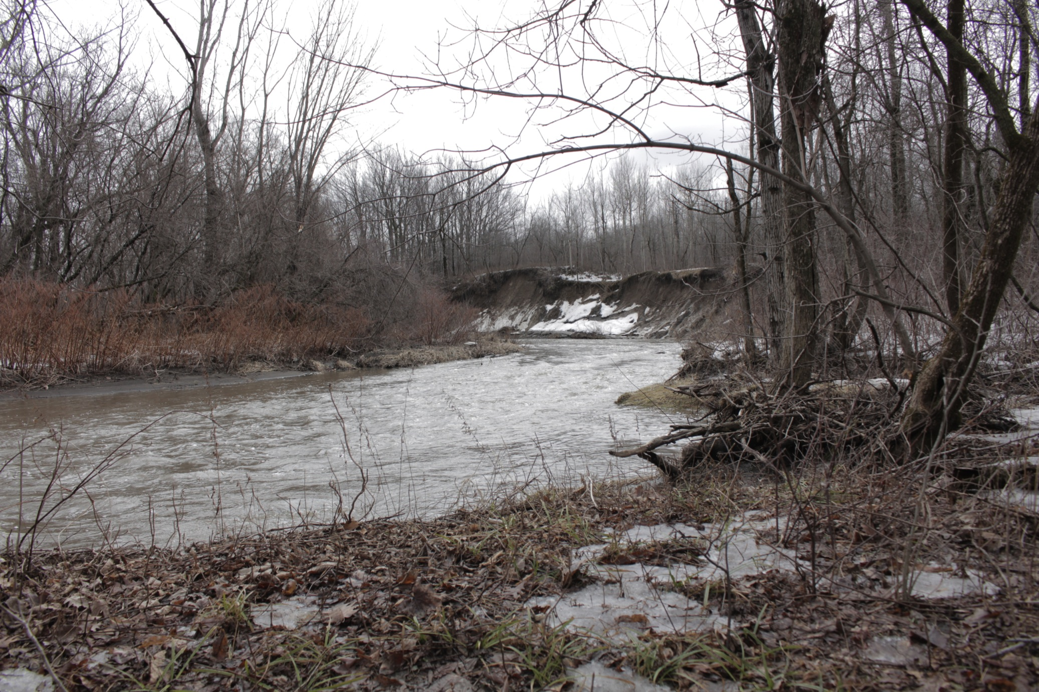 Rivière de la Tortue, ville de Delson, Québec, Canada Turtle River, town of Delson, Quebec, Canada